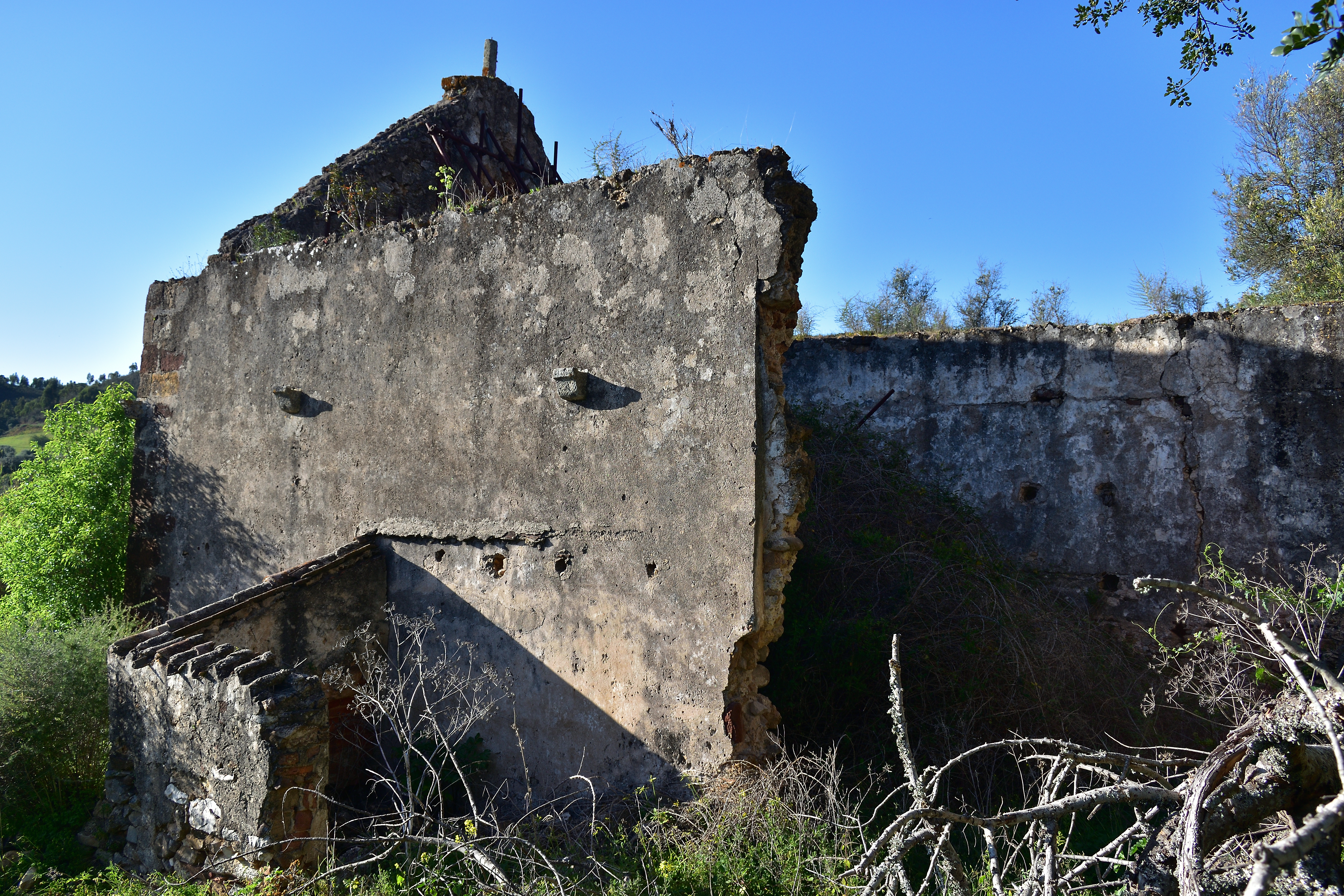 South side of Senhora do Verde church, in Algarve, Portugal.